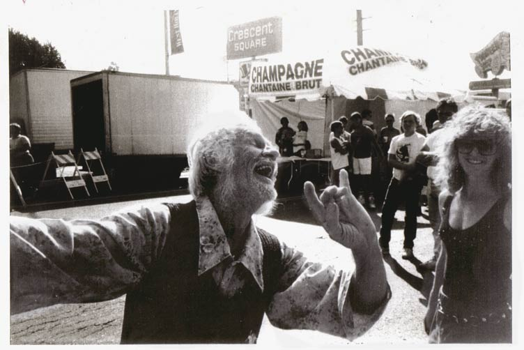 Taken while at a street festival when visiting friends in L.A.